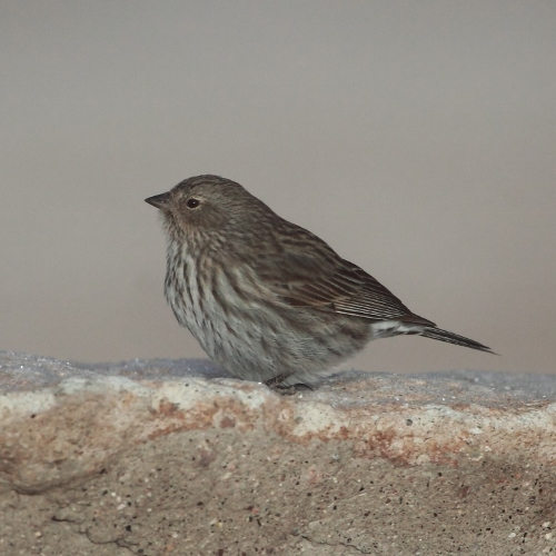 Plumbeous Sierra Finch (Female) at Geisers del Tatio, Chile